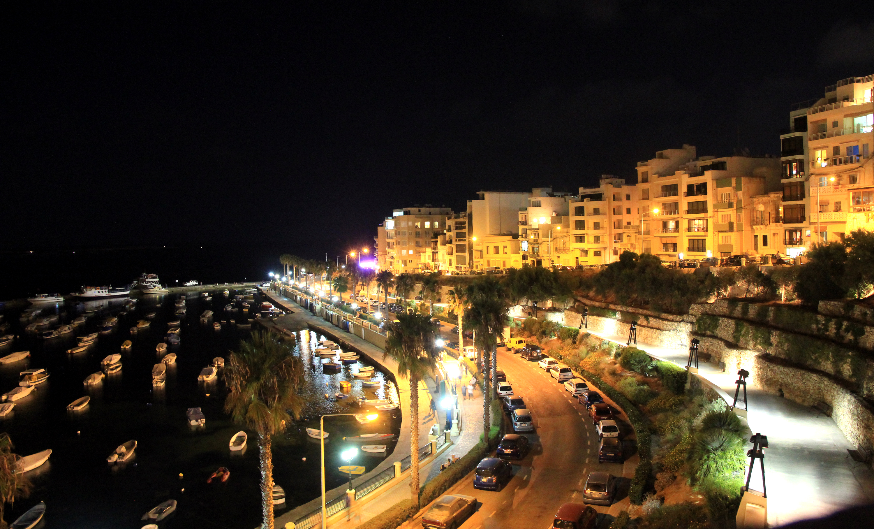 Night image of Buġibba Harbour, Bugibba, St. Paul's Bay, Malta